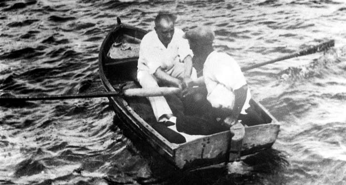 Mustafa Kemal Atatürk in a rowing boat in Florya, 1934.